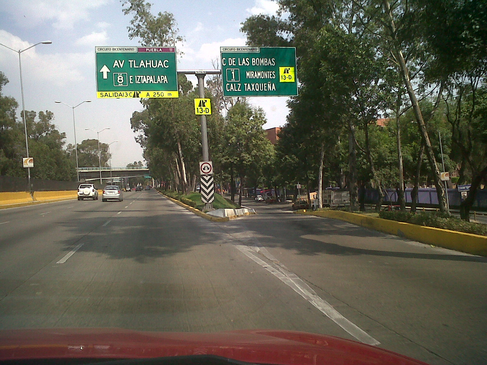 Avenue Rio Churubusco